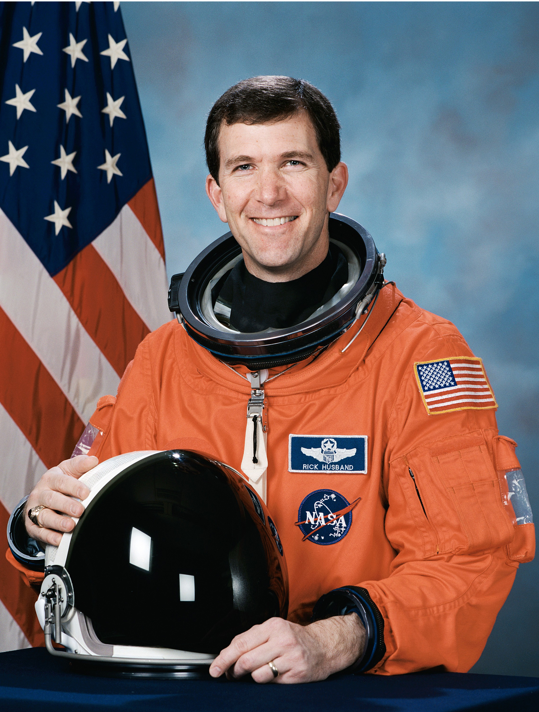 Richard Husband, American astronaut who died during the failed re-entry of Space Shuttle Columbia.